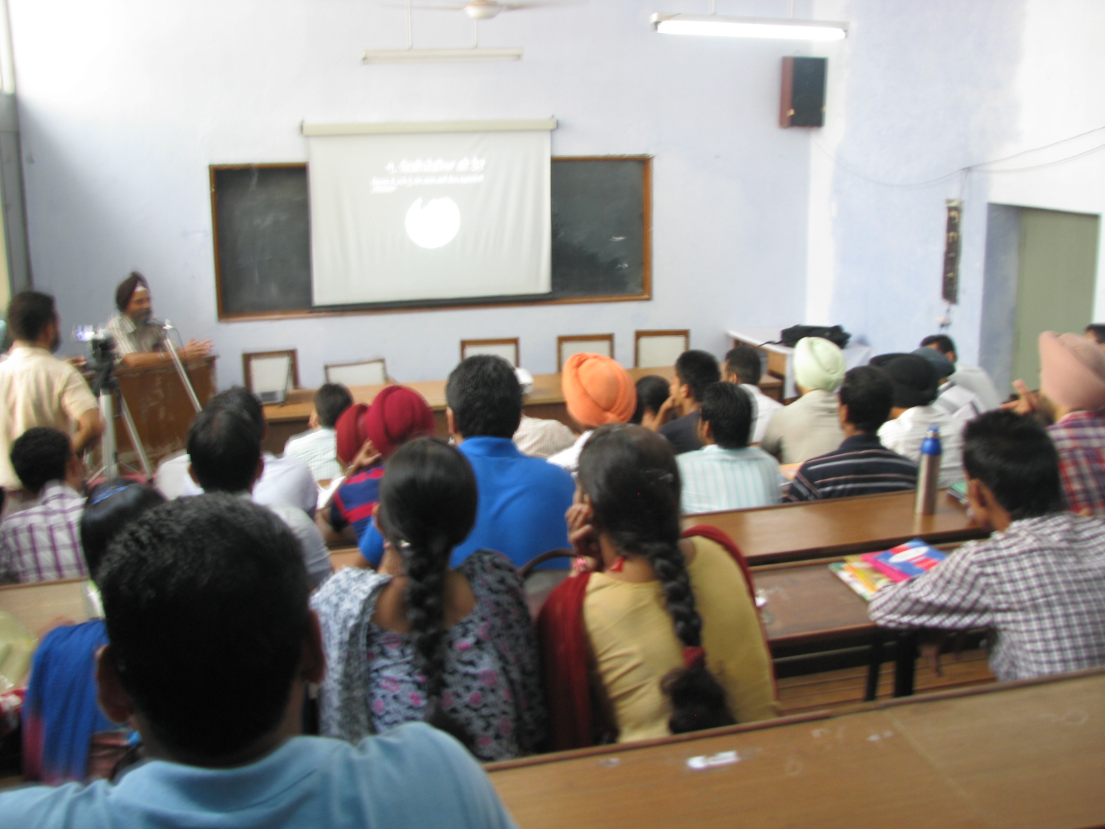 Punjabi Wikipedia Workshop, 16Aug2012, Patiala.